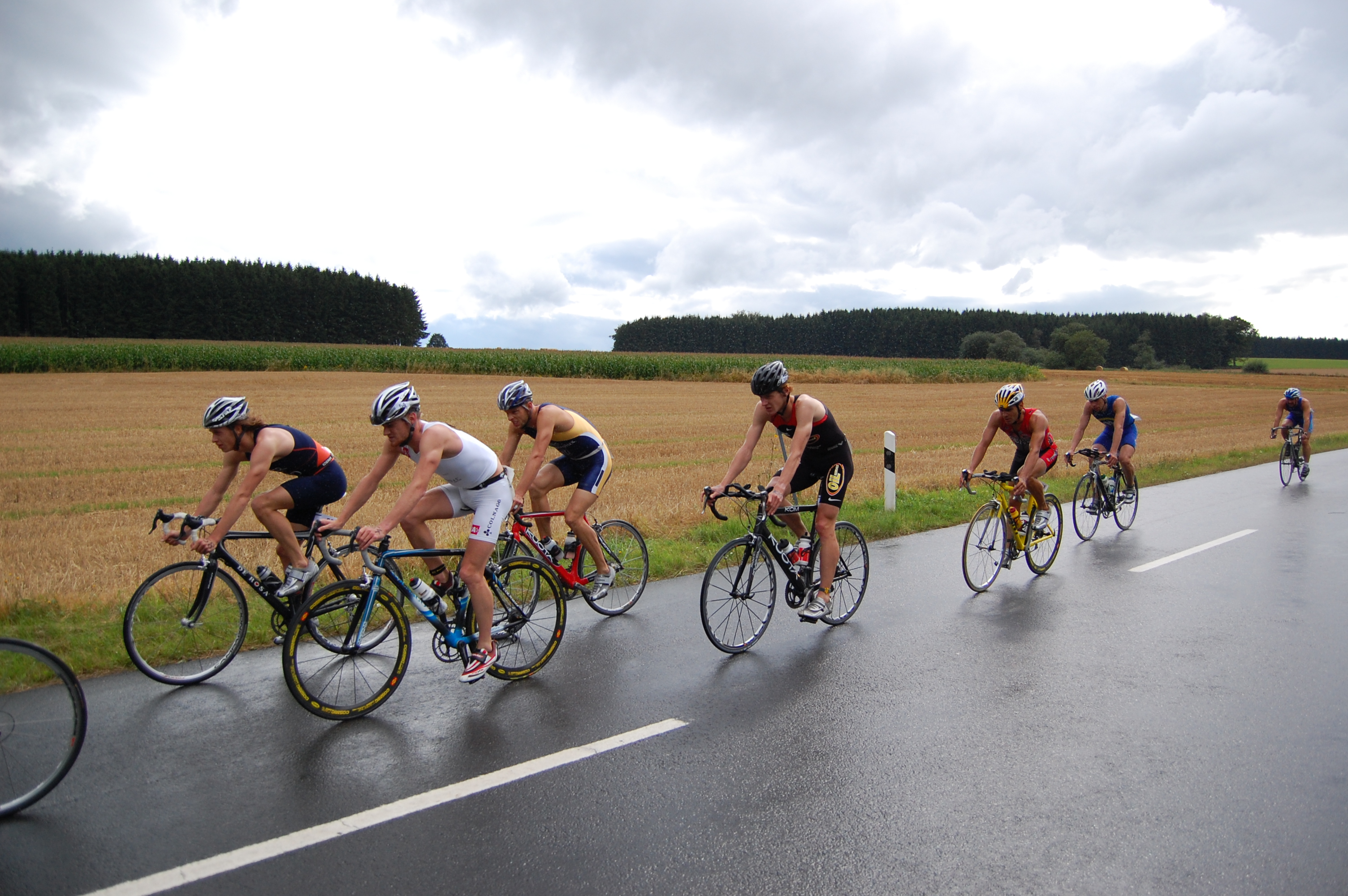 Peter Croes, Stijn Goris and others during the cycling part of the 2007 International Weiswampach Triathlon.